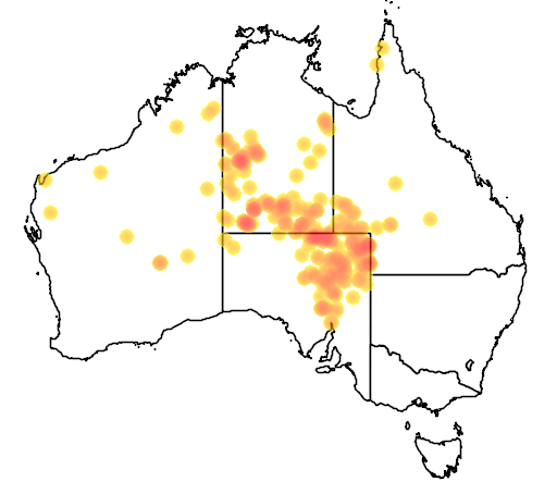 Distribution of Canegrass dragon